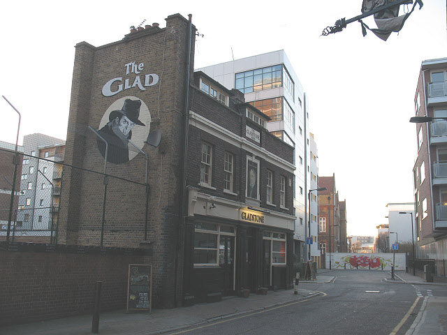 The Gladstone Arms, Lant Street, Southwark (2). The eastern end of this pub also seen in 1750071 is labelled "The Glad", presumably to attract younger customers.